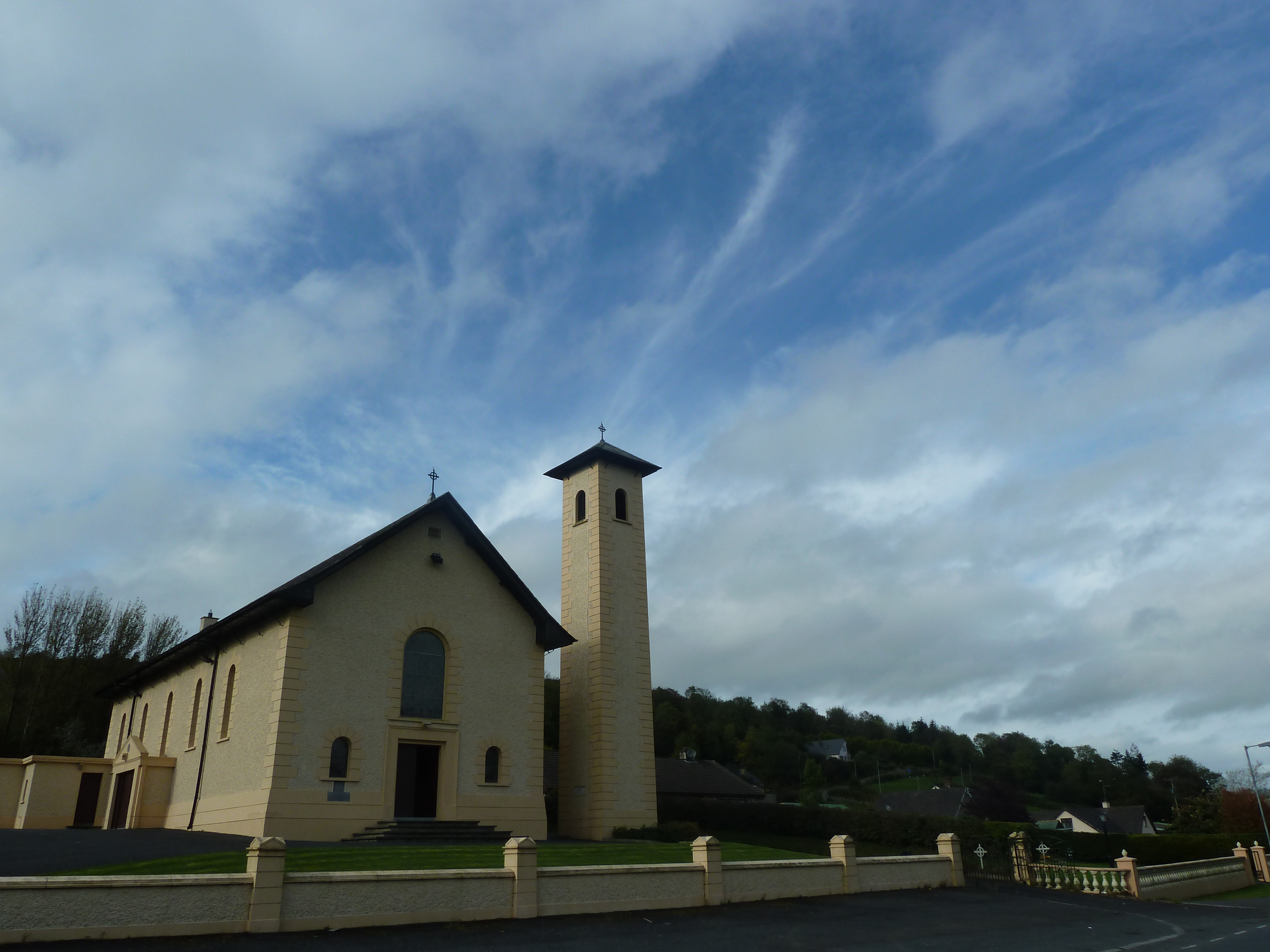 Our Lady, Queen of Peace, Aughanduff. Spetember 27th, 2011Deathpool4| (talk|) 05:17, 28 September 2011 (UTC) Summary Our Lady, Queen of Peace, Aughanduff. Spetember 27th, 2011Deathpool4 (talk) 05:17, 28 September 2011 (UTC)